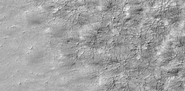 A delicate pattern, like that of a spider web, appears on top of the Mars residual polar cap, after the seasonal carbon-dioxide ice slab has disappeared. Next spring, these will likely mark the sites of vents when the carbon-dioxide ice cap returns. This Mars Global Surveyor, Mars Orbiter Camera image is about 3-kilometers wide (2-miles).